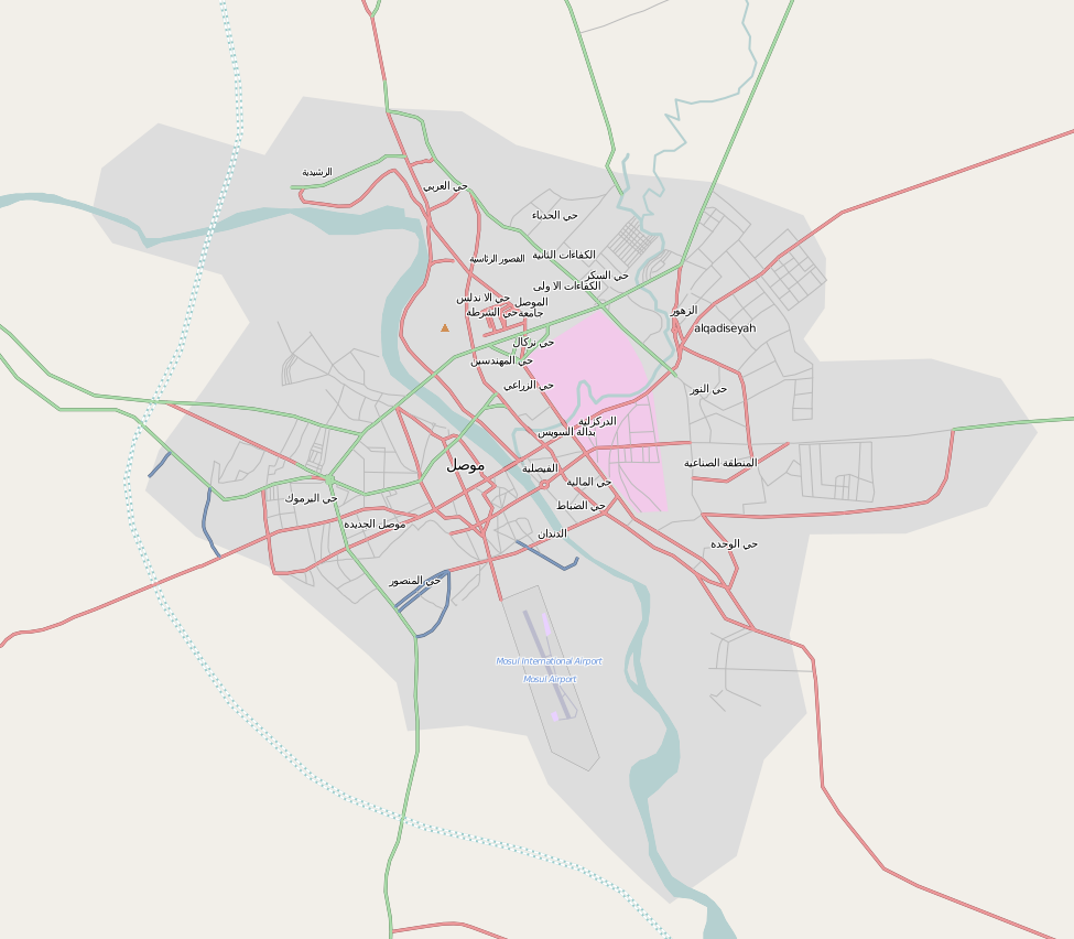 Map of Mosul Geographic limits of the map: N: 36.44° S: 36.25° W: 43.01° E: 43.28°